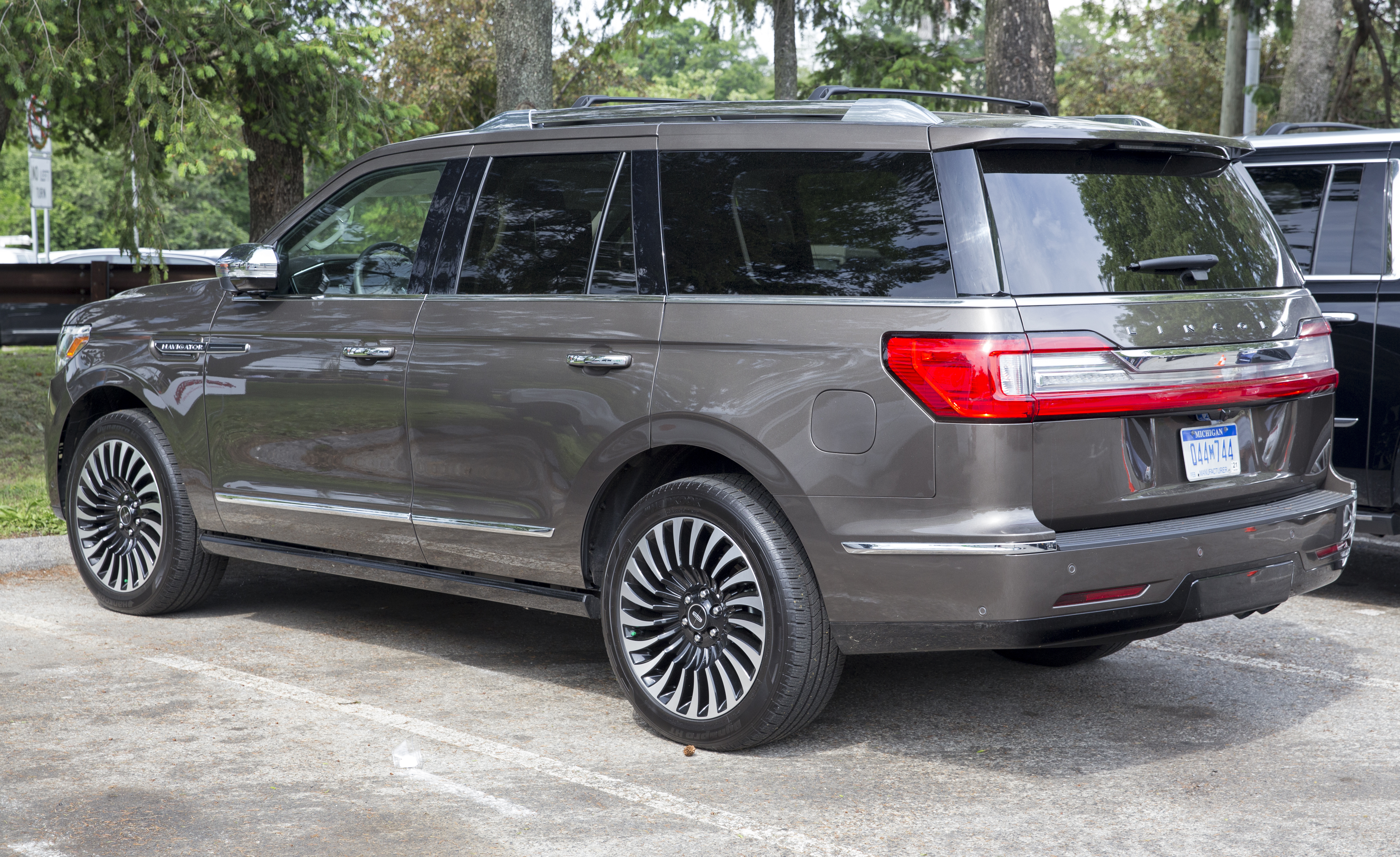 2018 Lincoln Navigator at the 2018 Greenwich Concours d'Elegance.